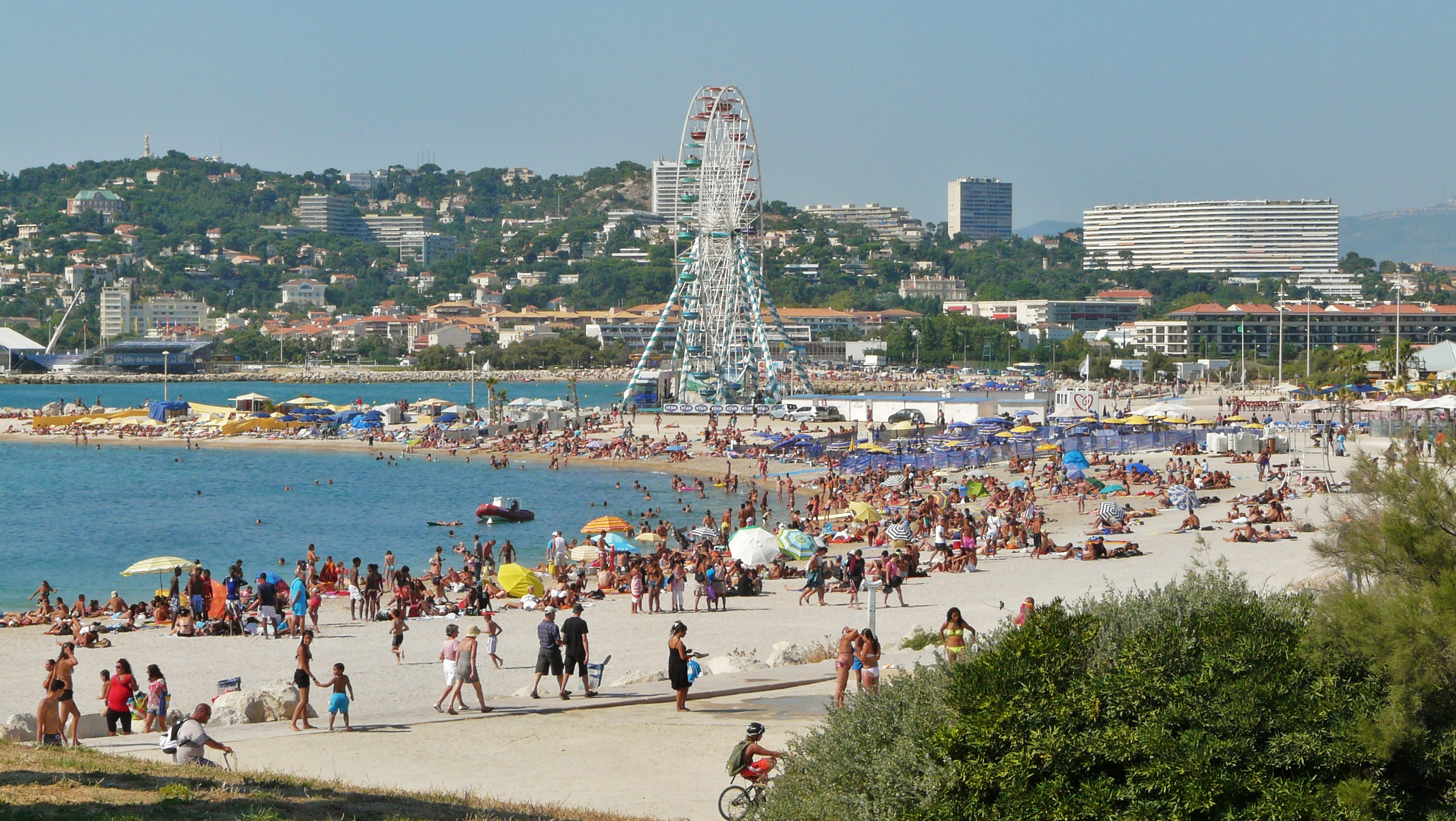 A beach in southern Marseille in 2009 July.